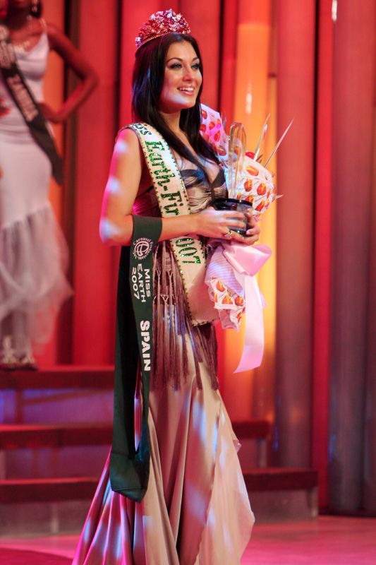 Angela Gomez from Spain is Miss Earth Fire 2007 (3rd Runner Up)